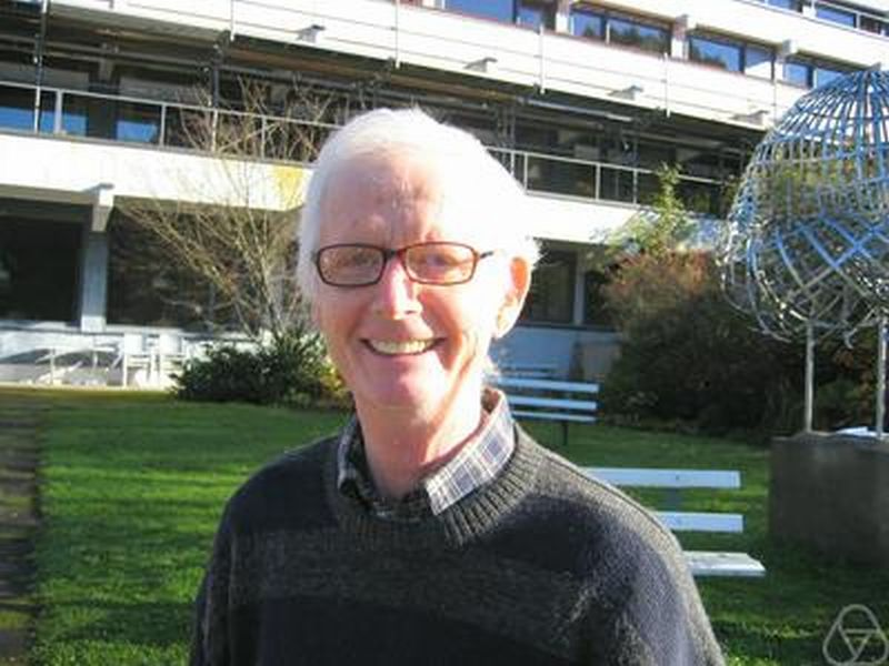 Klaus Kirchgässner, Oberwolfach 2006